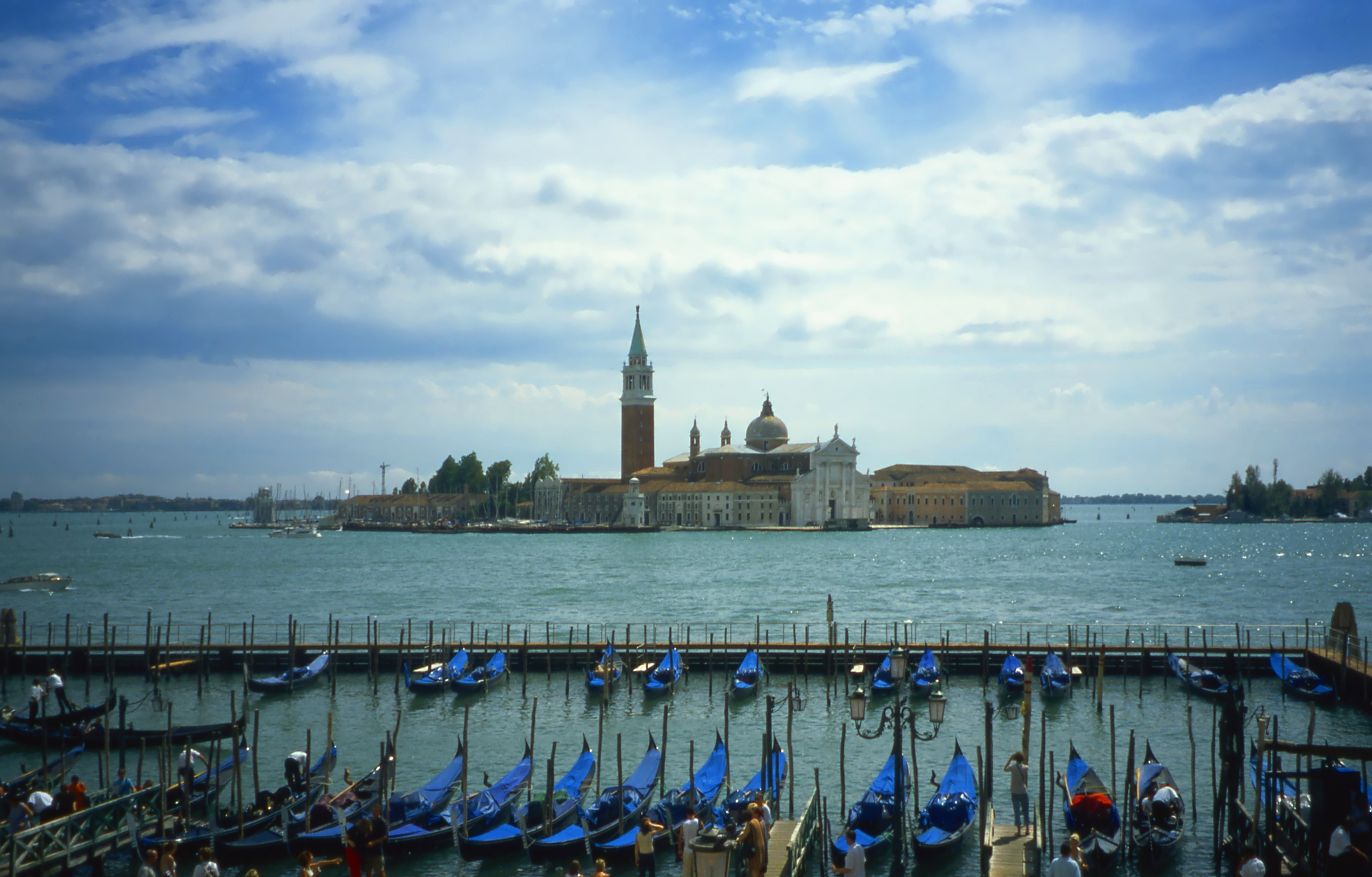 San Giorgio Maggiore from Main Island of Venice